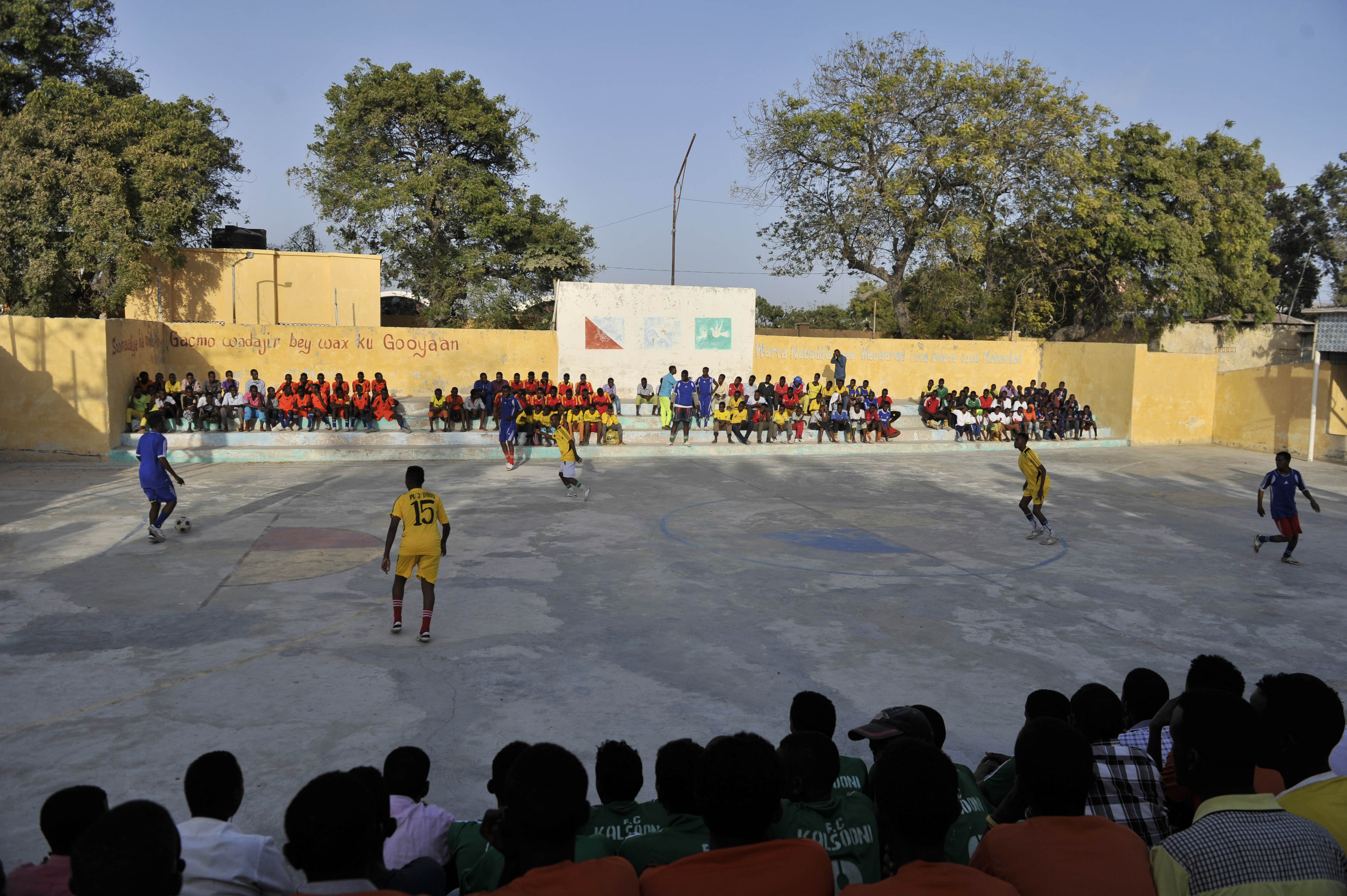 Young Somali Players tussle for the ball during a football match organised and supported by AMISOM Police Component held in Warta Nabadda District, Mogadishu, Somalia on March 01, 2015. AMISOM Photo / Ilyas Ahmed